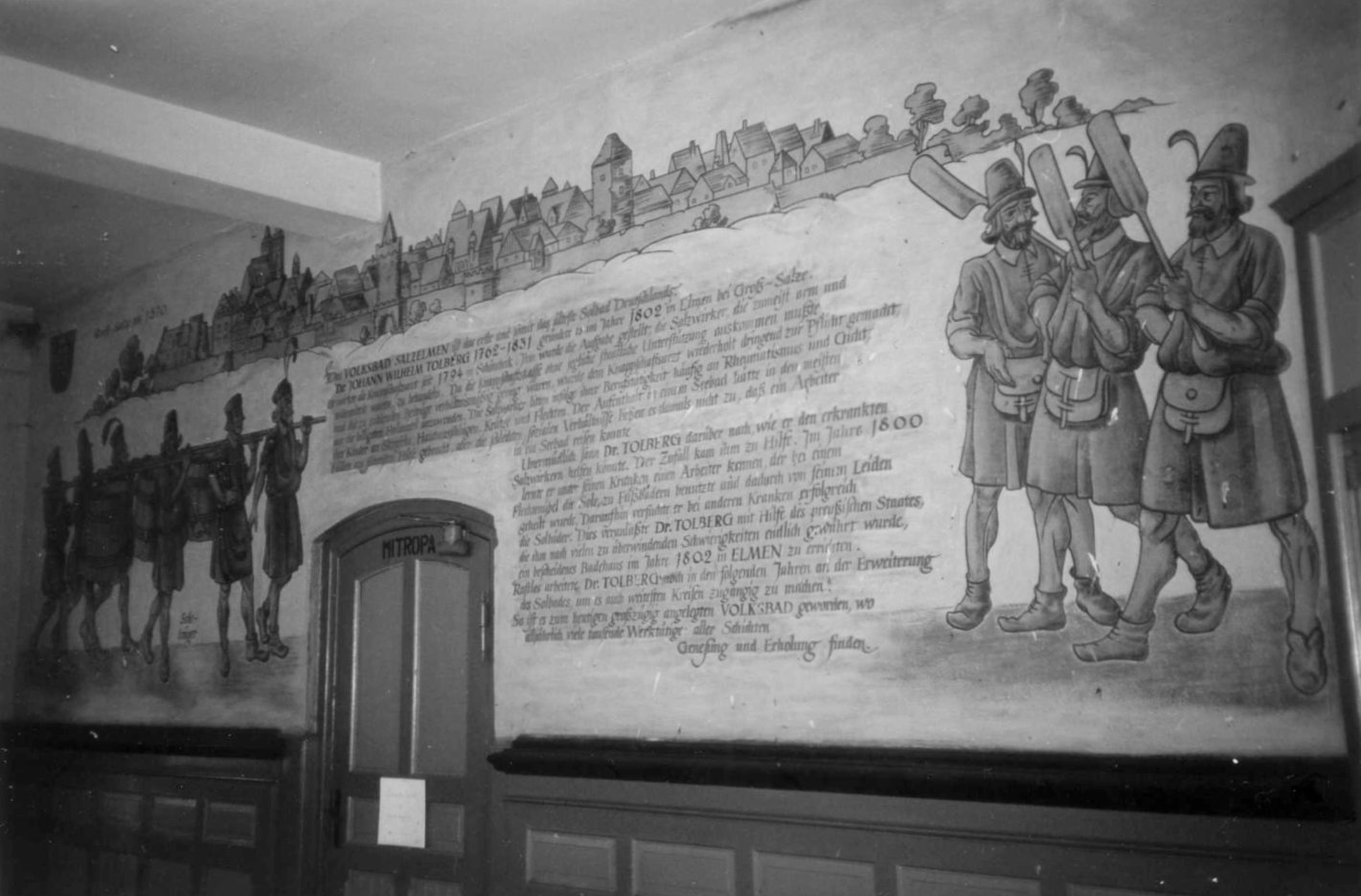 Salt production ceased here in 1972. The mural depitcs the history of Salt production and the opening of the Spa here. Behind the door, a Deutsche Reichsbahn Mitropa Restaurant which was open and serving Magdeburger Bier. Is this mural still here? Help please. The history of Bad Salzelmen and its salt production and spa are found on the wikipedia page in German. As might be made out on the right, here in 1802 was the first Solheilbad (saline health spa) in Germany , founded by Johann WIlhelm Tolberg who died here in 1831. Tolberg had come here as a doctor to the Royal Prussian Saltworks and had discovered in 1800 the health giving properties of brine.